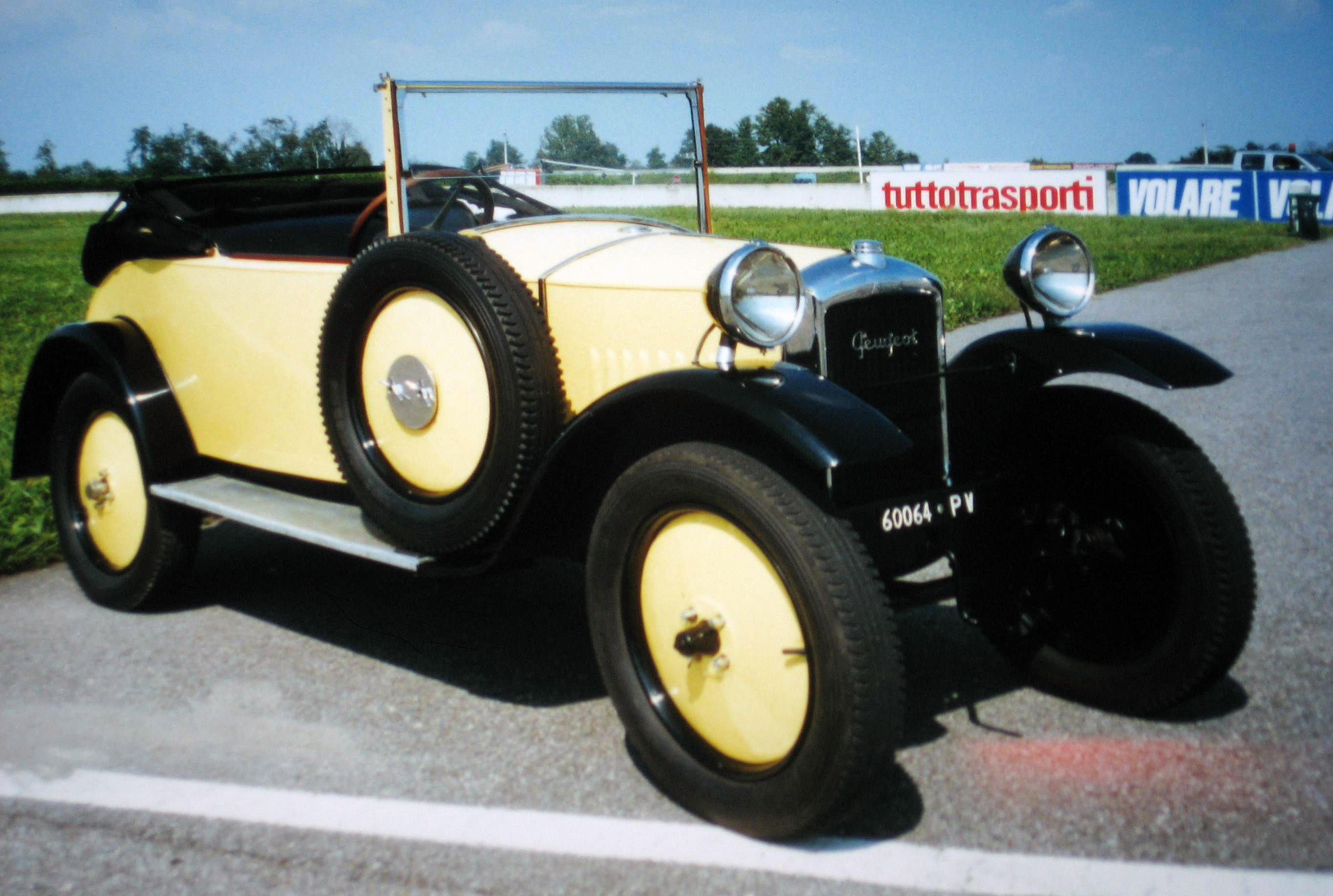 This is a Peugeot Type 172 BC "Quadrilette" I've taken this photo in September 2002, during a meeting of ancient Peugeot cars. The original photo was taken by a conventional camera, this picture is a "photo of the photo", taken yesterday by a digital camera, because I haven'got any scanner.